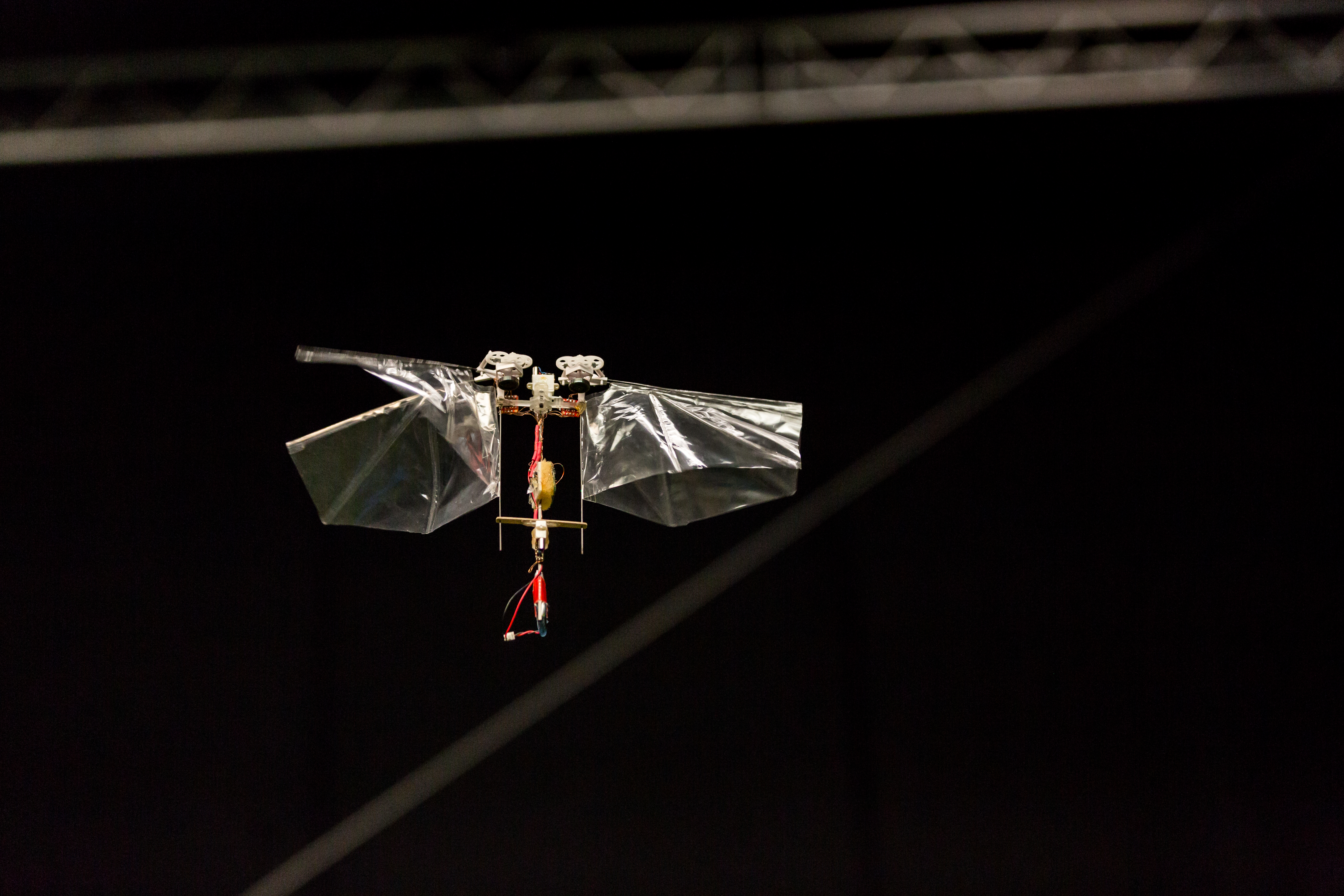 DelFly Nimble, an agile insect-inspired robot from TU Delft